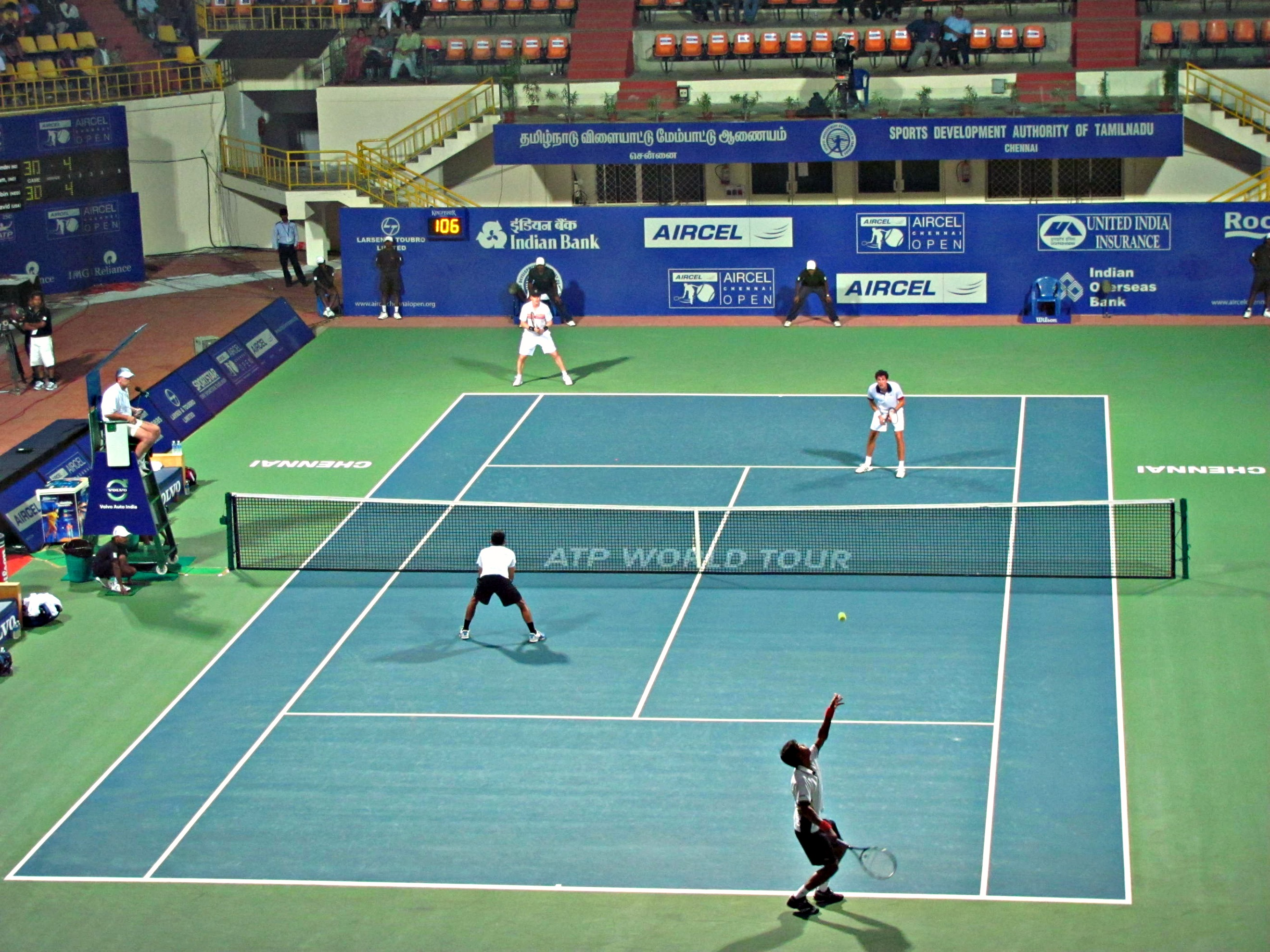 The second match at the center court of SDAT Nungambakkam Tennis stadium during 2011 Aircel Chennai Open. This is a doubles match in between Somdev Devvarman & Sanam Singh (India) Vs Robin Haase (Ned) & David Martin (USA).